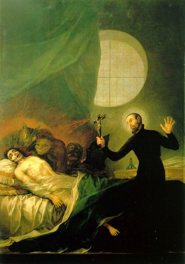 A painting by Goya, of Father General, Saint Francis Borgia, SJ performing an exorcism.